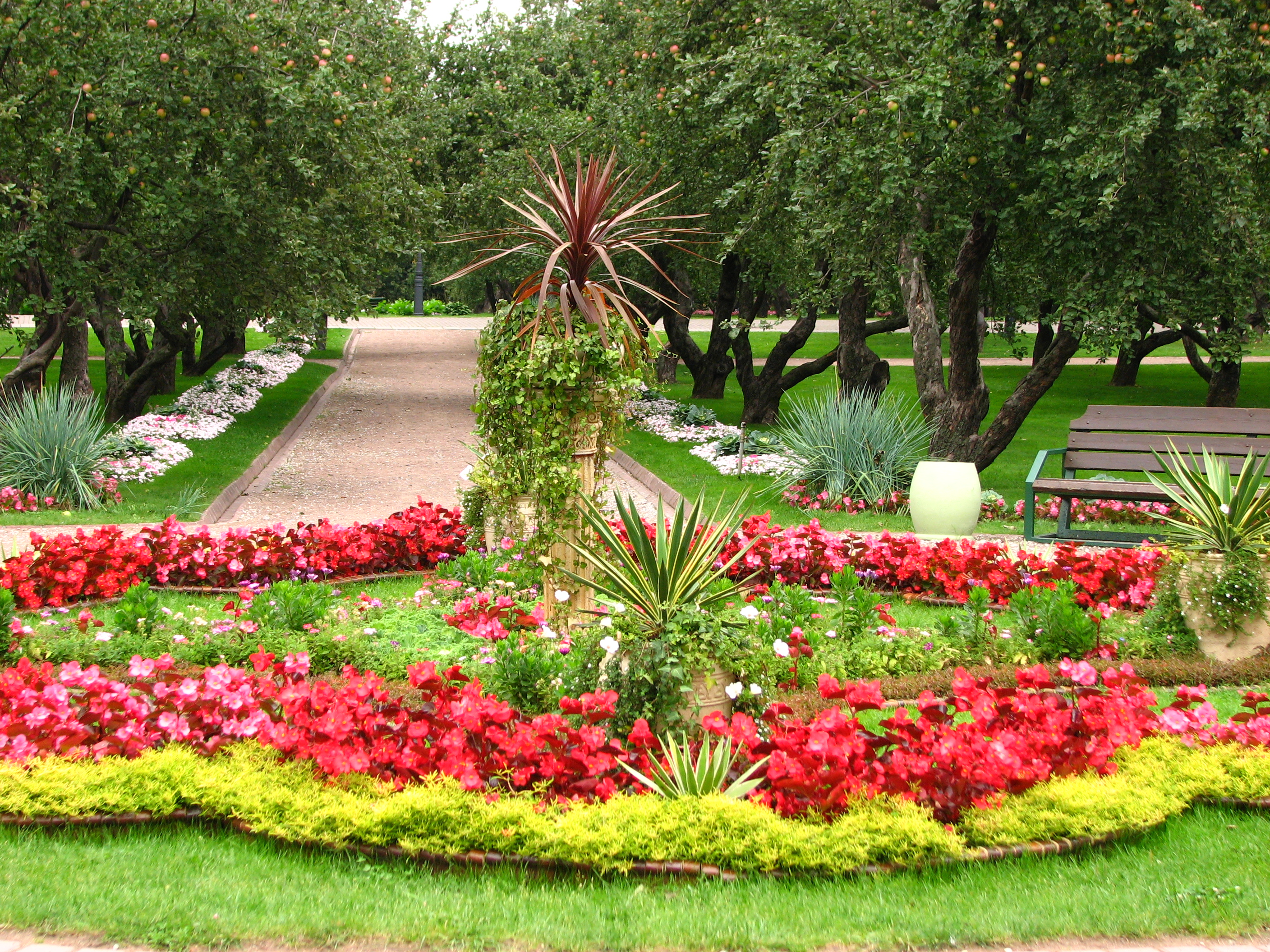 Flower beds in park Kolomenskoye (Moscow). Bed with use of a begonia semperflorens pink and red colouring.